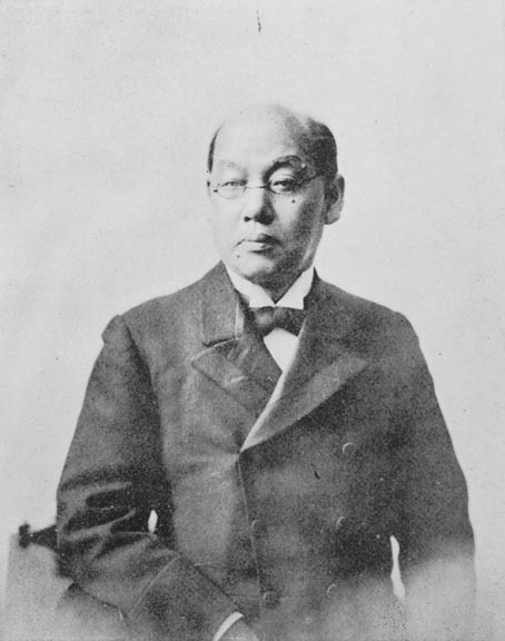 Tokiyuki Hōjō, 1st director of the Hiroshima Higher Normal School.